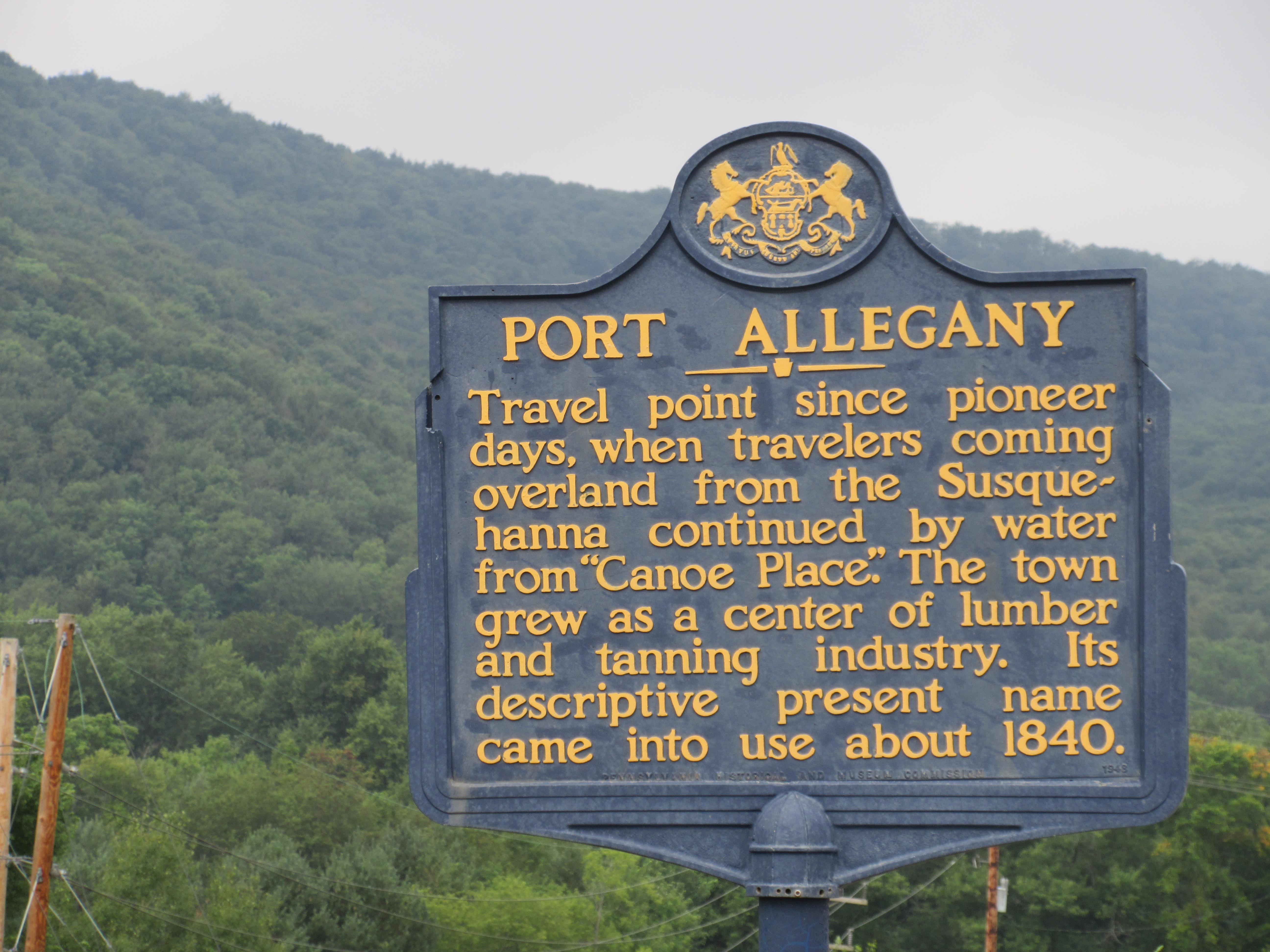 Port Allegany, Pennsylvania